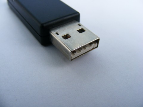 Free Photos – USB male A-type Socket More photos and details about possible copyright or licensing restrictions here: Full Size Up to 3072 x 2304 pixels Information Regarding Copyright